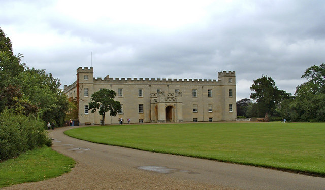 Syon House Main entrance with carriage driveway to Syon House.